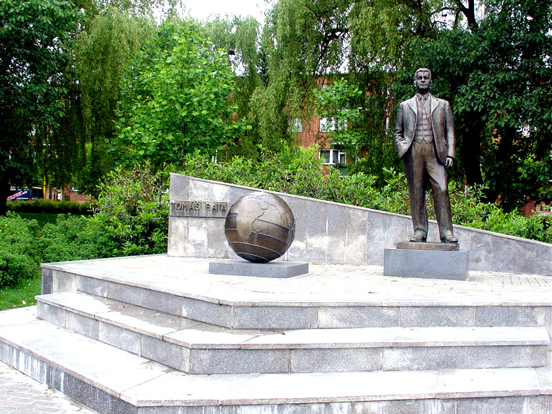 Statue of Tomáš Baťa, the entrepreneur in Otrokovice, Czech Republic